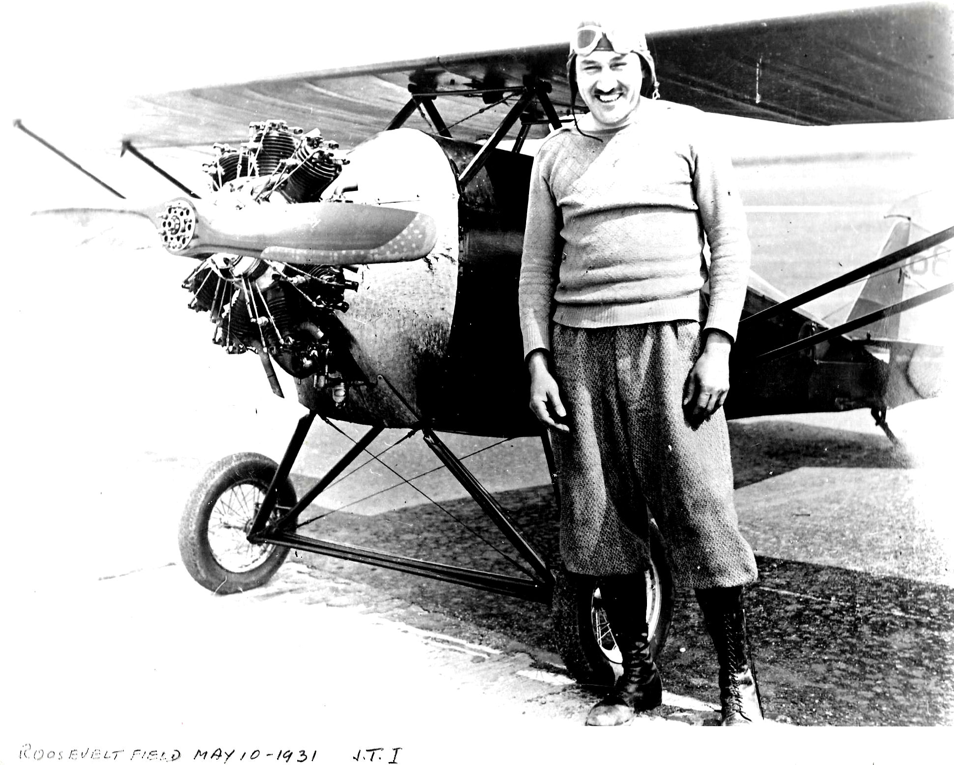 Bert Acosta standing in front of J.T.1 designed by Joseph Terleph